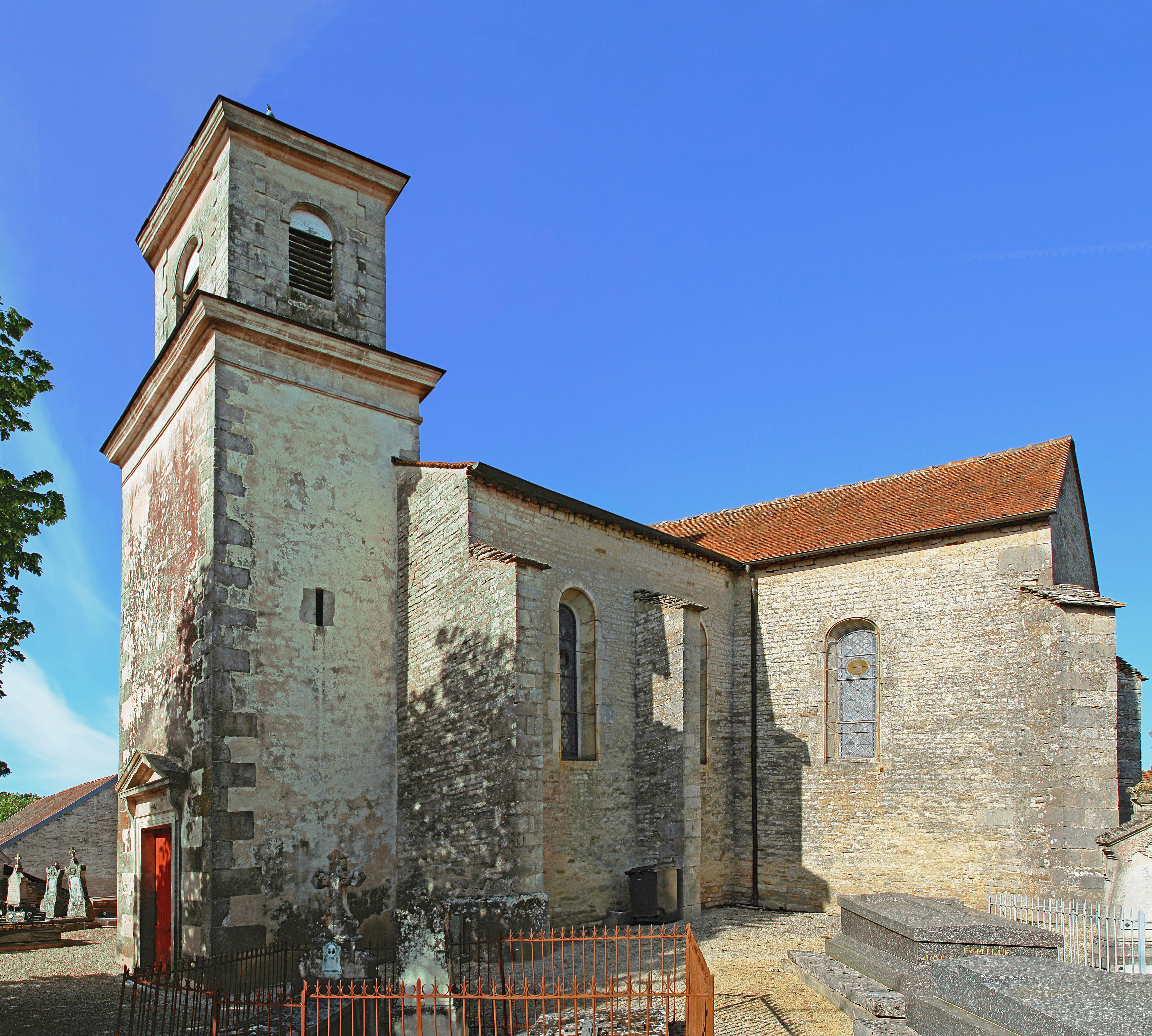 St Barthelemy church of Jours-lès-Baigneux